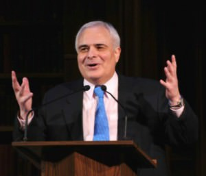 Mr. Filichia addressing students.